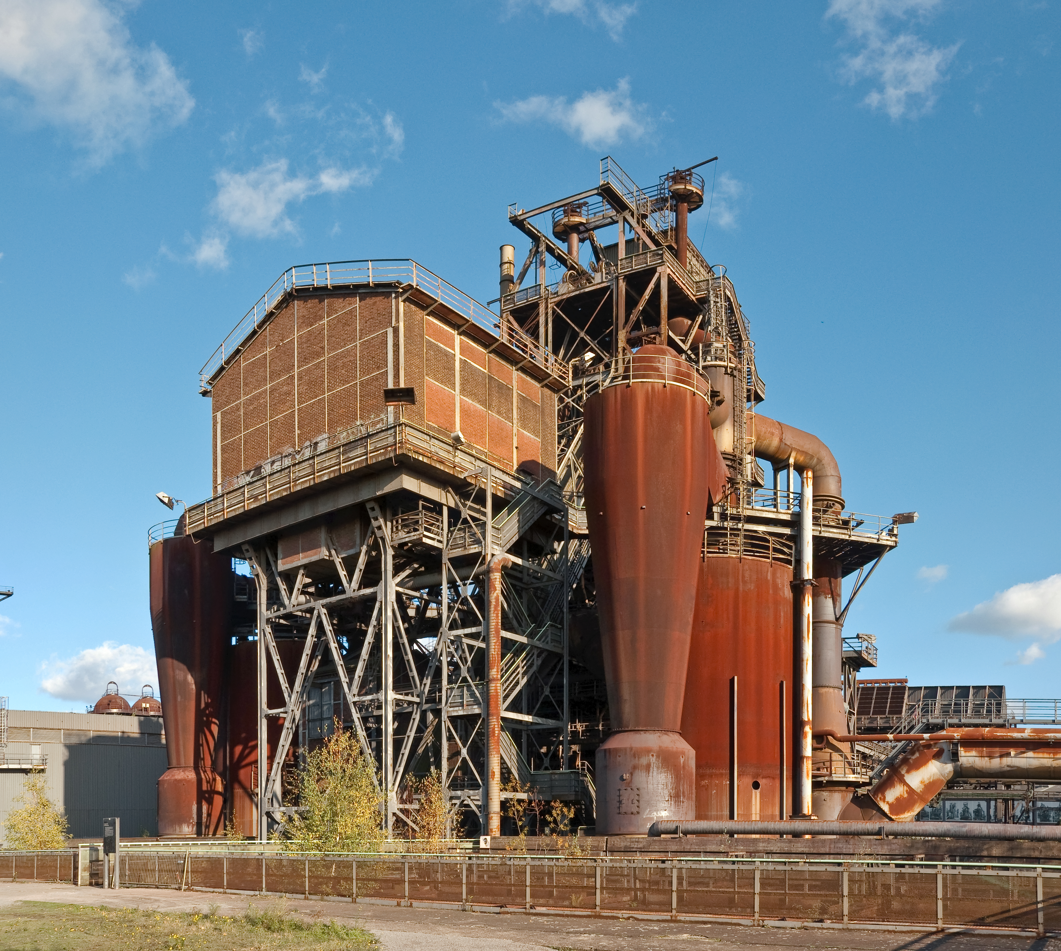 Blast furnace 5 in the Landschaftspark Duisburg-Nord: Winch house with „dust bag“ and „cyclone dust catcher“